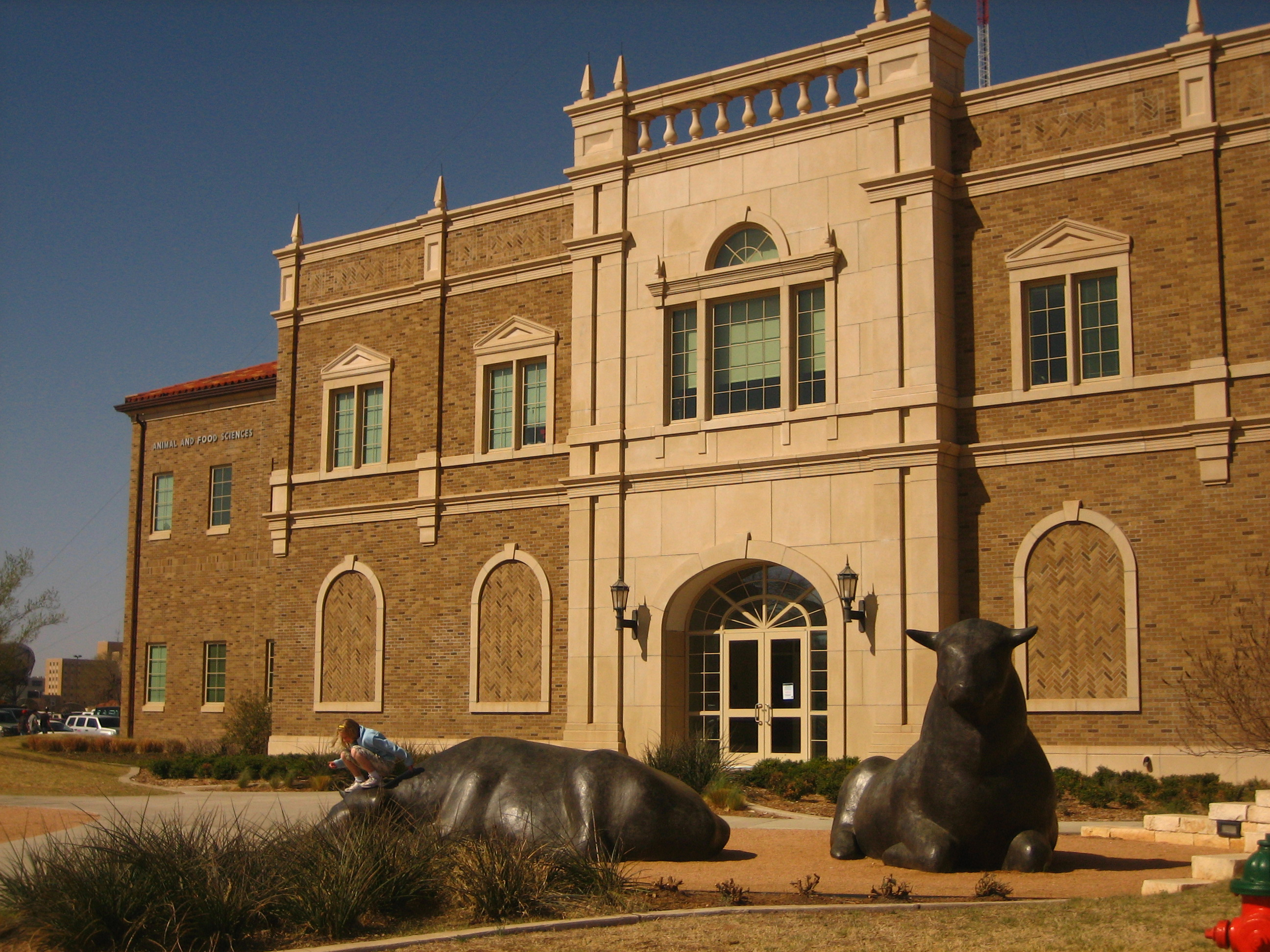 I took photo on April 4, 2009.Billy Hathorn (talk) 01:50, 18 April 2009 (UTC)